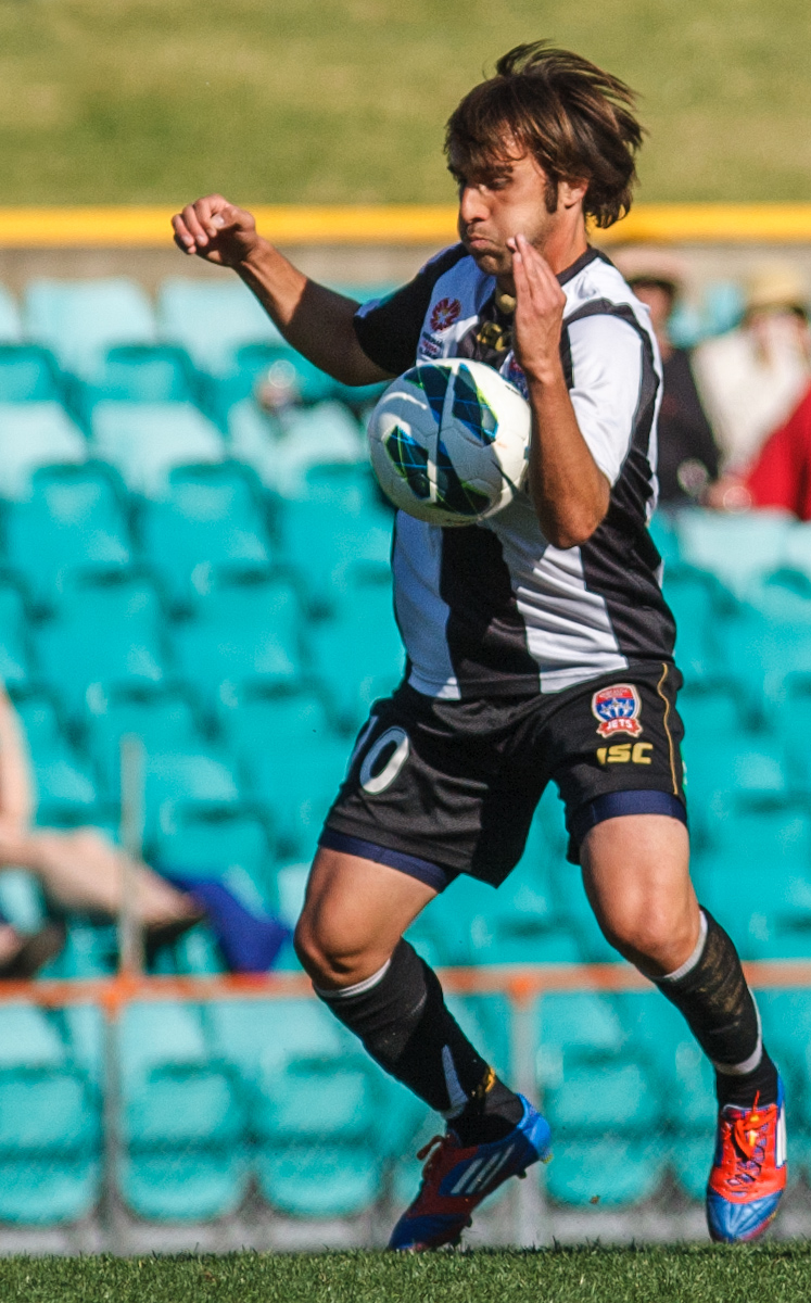 Bernardo Ribeiro playing in a pre-season match between Sydney FC and Newcastle Jets.